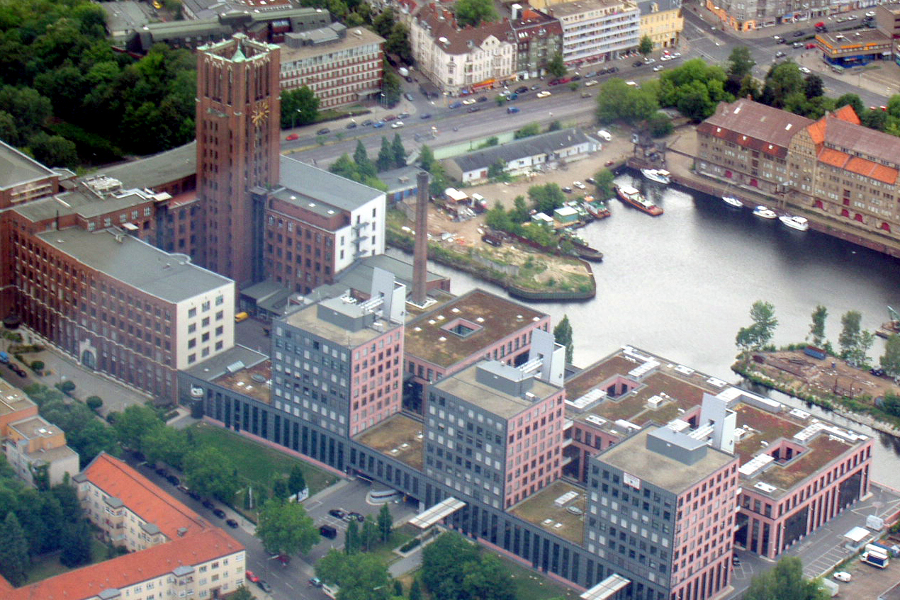 Aerial view of the Ullsteinhaus